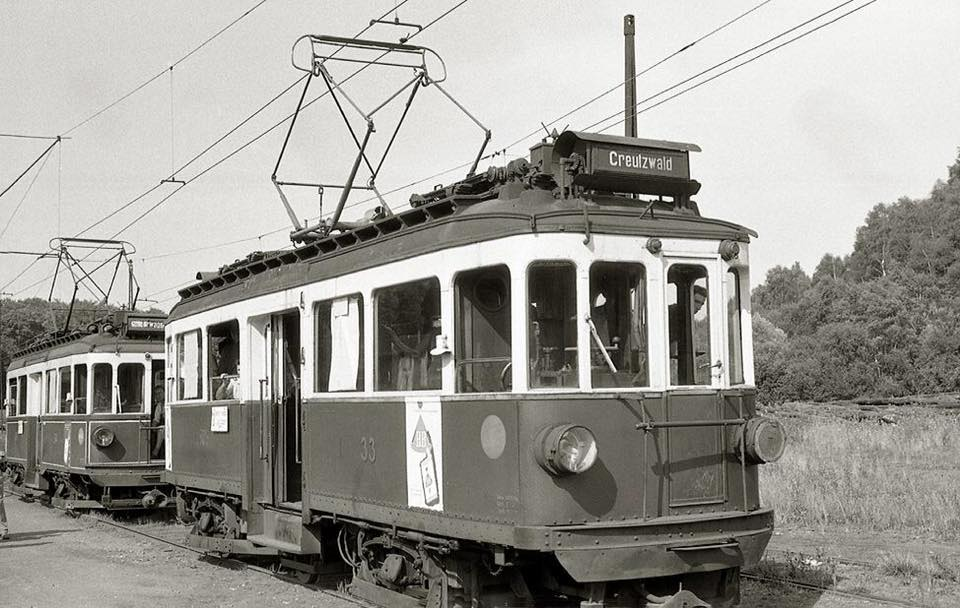 tramway